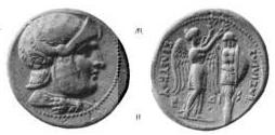 Source: Gardner, Percy and Poole, Reginald Stuart. Catalogue of Greek Coins. The Trustees(British Museum), 1878.